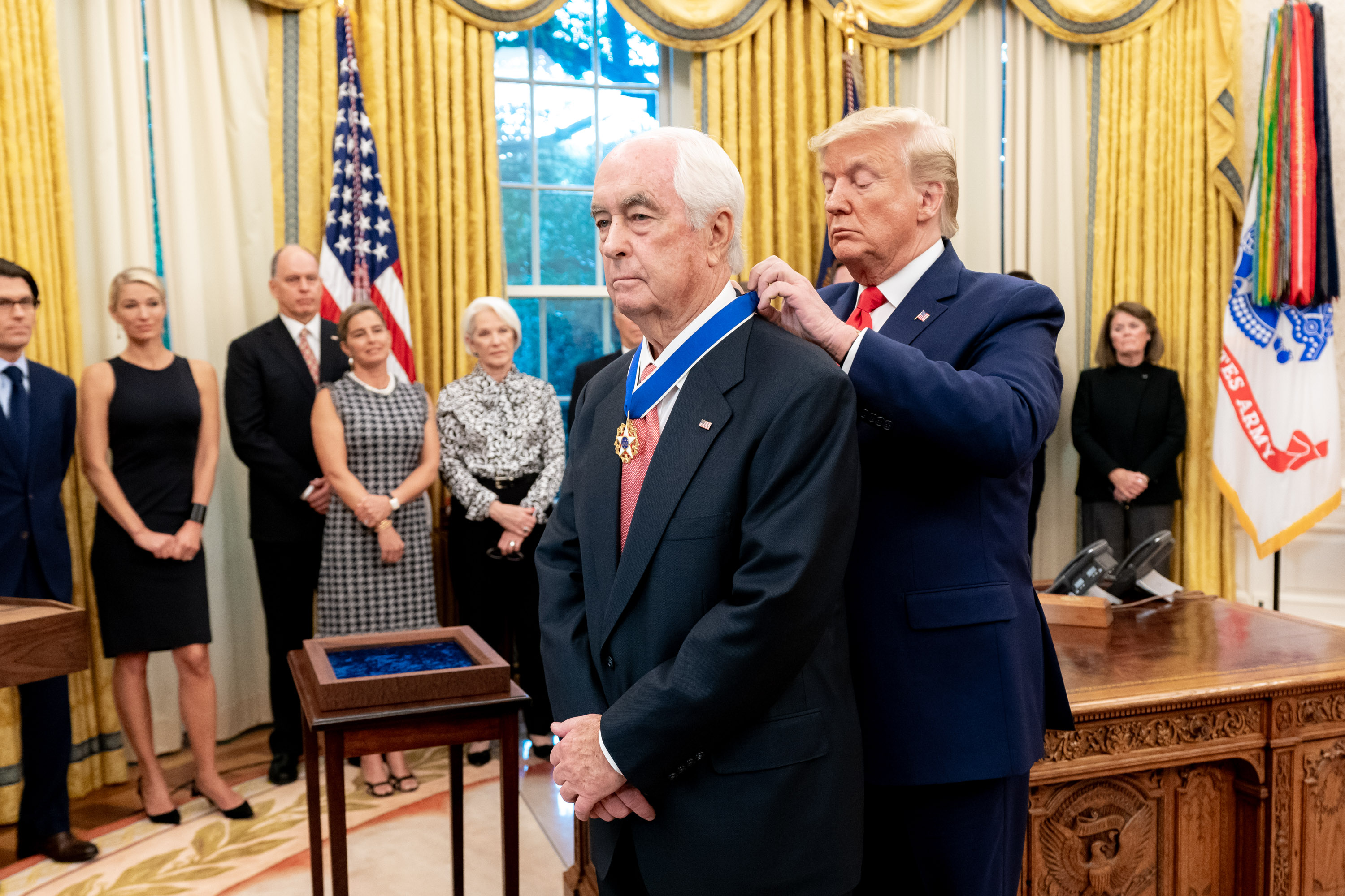 President Donald J. Trump presents the Presidential Medal of Freedom, the nation’s highest civilian honor, to legendary race car driver and race team owner Roger Penske, Thursday, Oct. 24, 2019, in the Oval Office of the White House. (Official White House Photo by Tia Dufour)